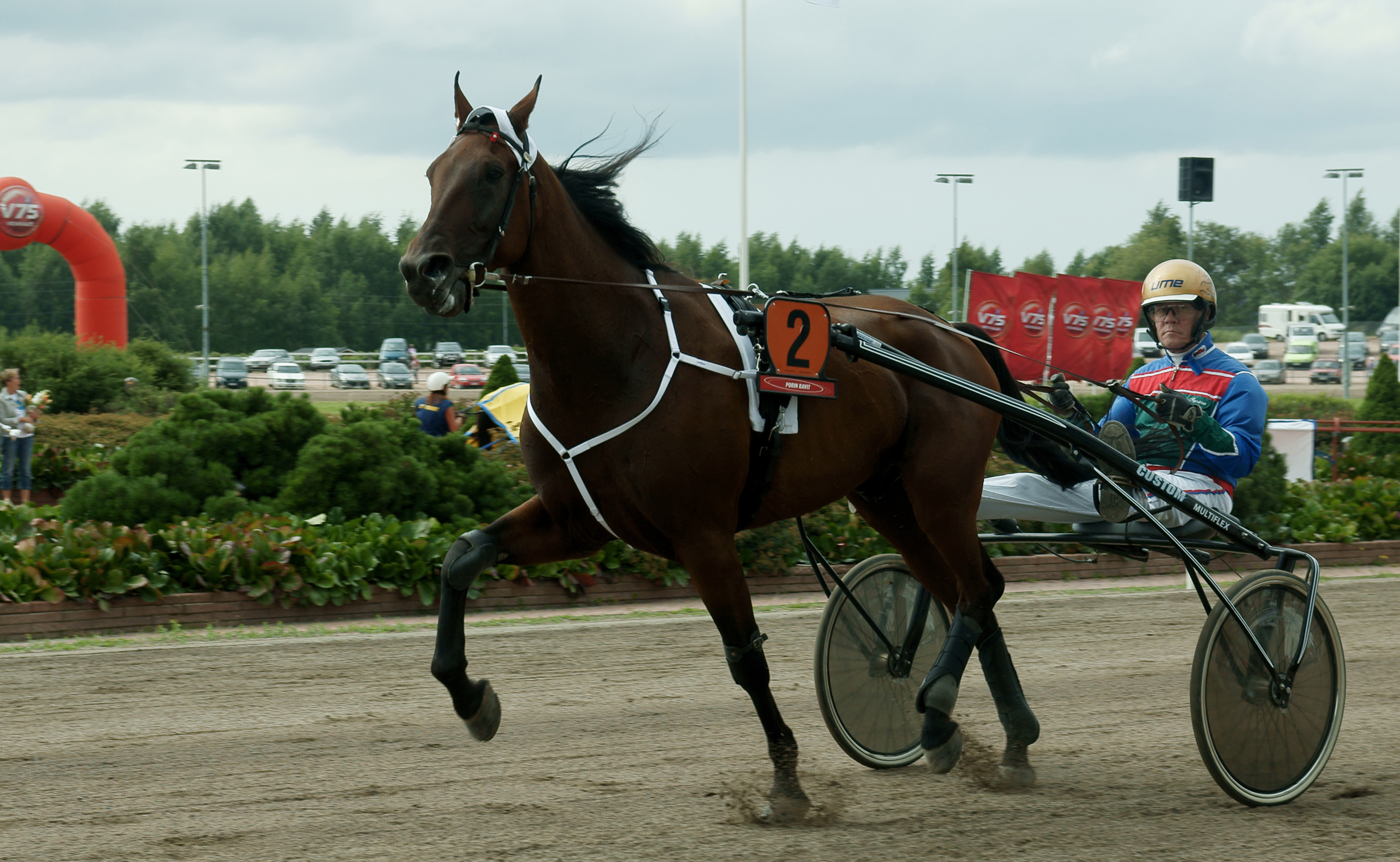 Kari Rosimo harnessing Mi Victor in Pori harness racing track.